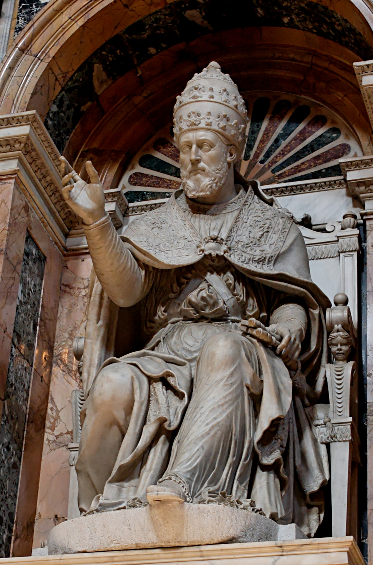 Statue of Pope Clement VIII, from his tomb in the Borghese Chapel of the Basilica di Santa Maria Maggiore.